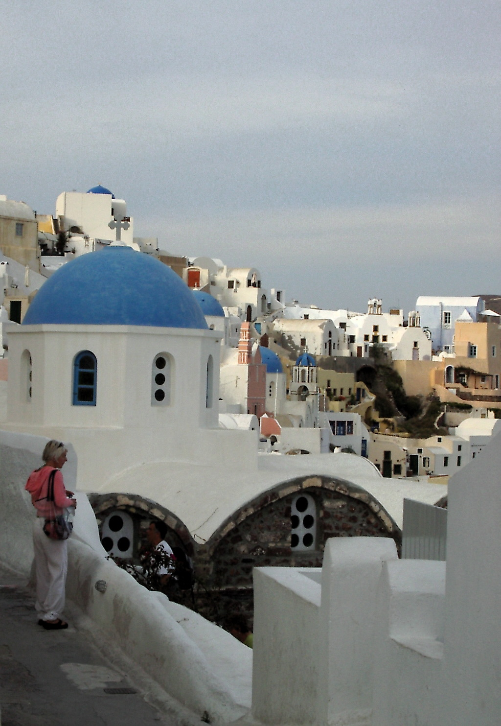 Overlooking a blue-domed church in Oia on SantoriniOia